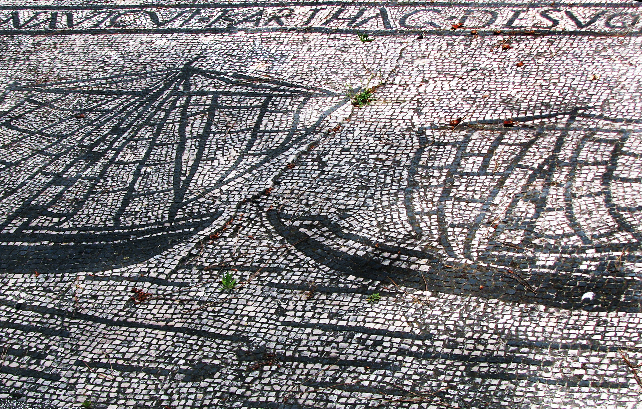 Two ships, detail of a mosaic pavement, with part of the inscription “navicul. Karthag. de suo" (CIL XIV, 4549, 18). Stall 18, belonging to navicularii from Carthago. Piazzale delle Corporazioni (regio II, insula VII, 4), Ostia Antica, Italy.